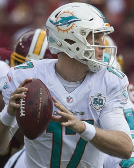 Ryan Tannehill, a player on the National Football League.